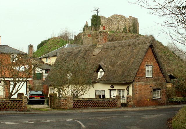 Thatched cottage with Eye Castle behind